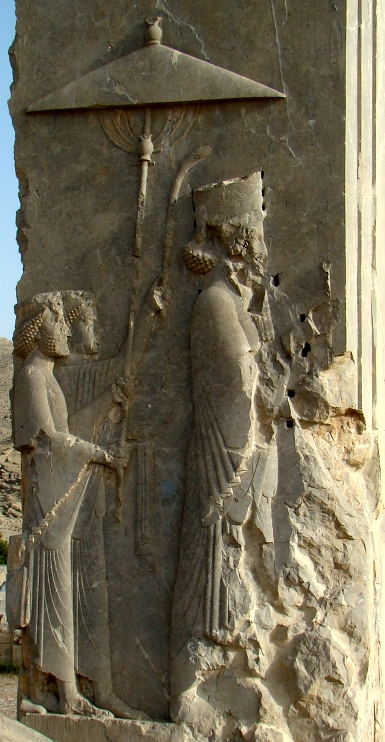 Relief of the Persian king Xerxes (485-465 BC) in the doorway of his palace at Persepolis